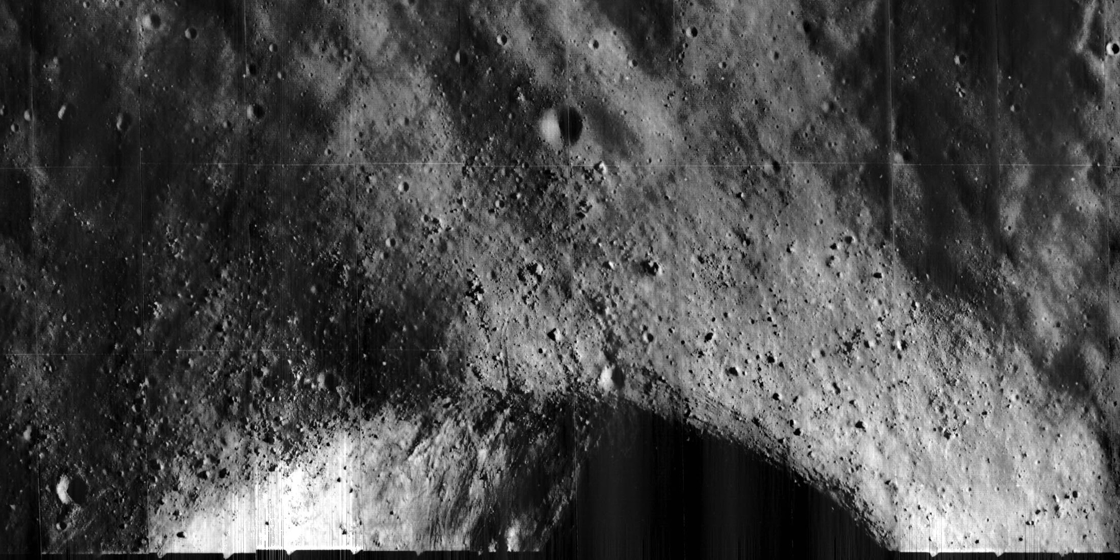 The north rim of the dark-halo crater Copernicus H, located southeast of Copernicus on the moon. The Lunar Orbiter 5 image was targeted to investigate this crater specifically. The presence of the boulders ("blocks") on the rim indicates it is a typical impact crater rather than a volcanic feature.